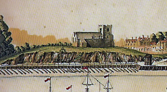 Detail of a view of Woolwich Dockyard with the medieval parish church of St Mary Magadalene in Woolwich, then Kent, now South East London, UK. Watercolour of 1698 prepared for King William III under Edmund Drummer in volume in BL. The British Library, King's MS 43, ff. 47-8.